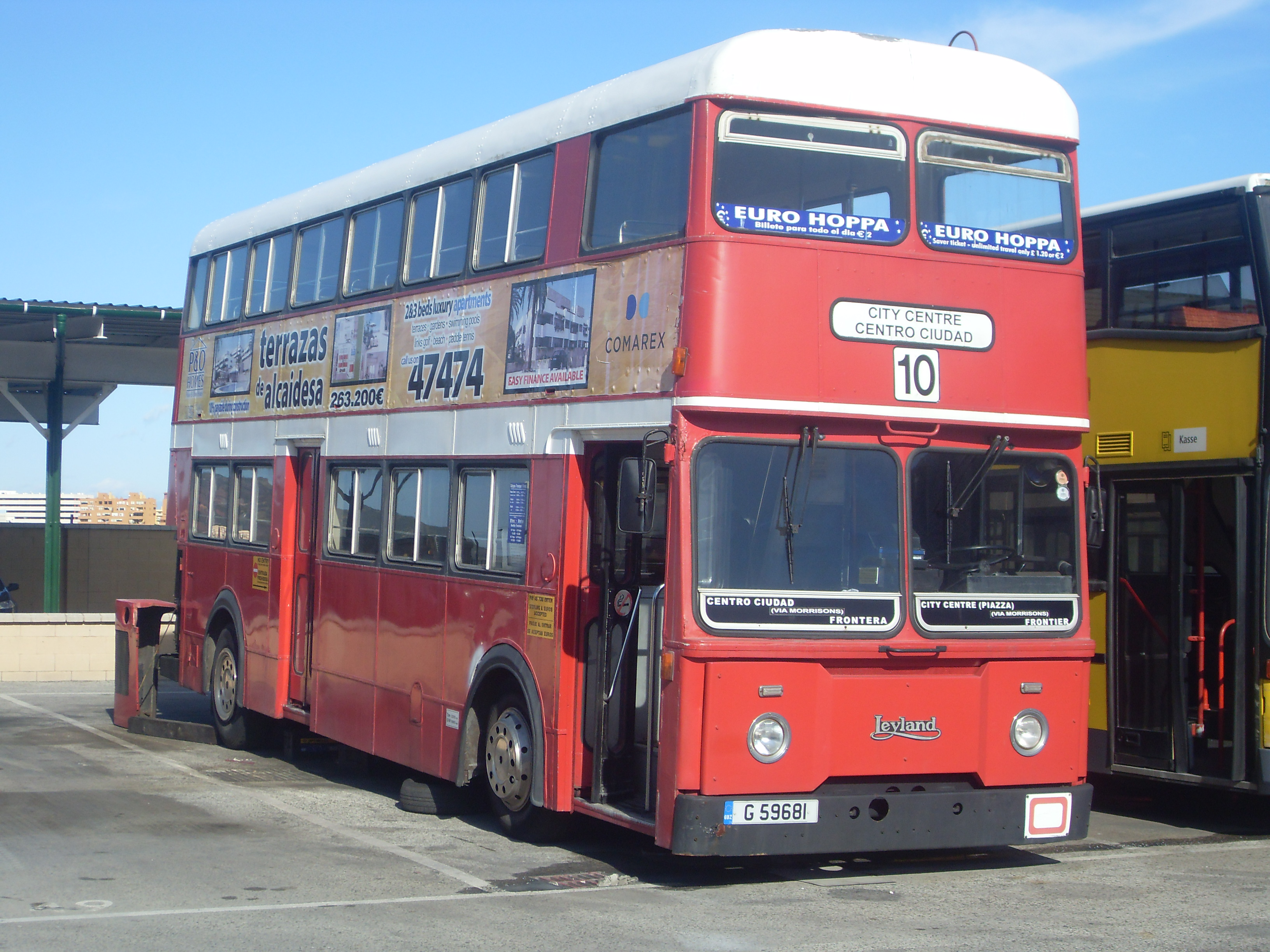 Leyland Atlantean Bus Gibraltar, 21st January, 2009.